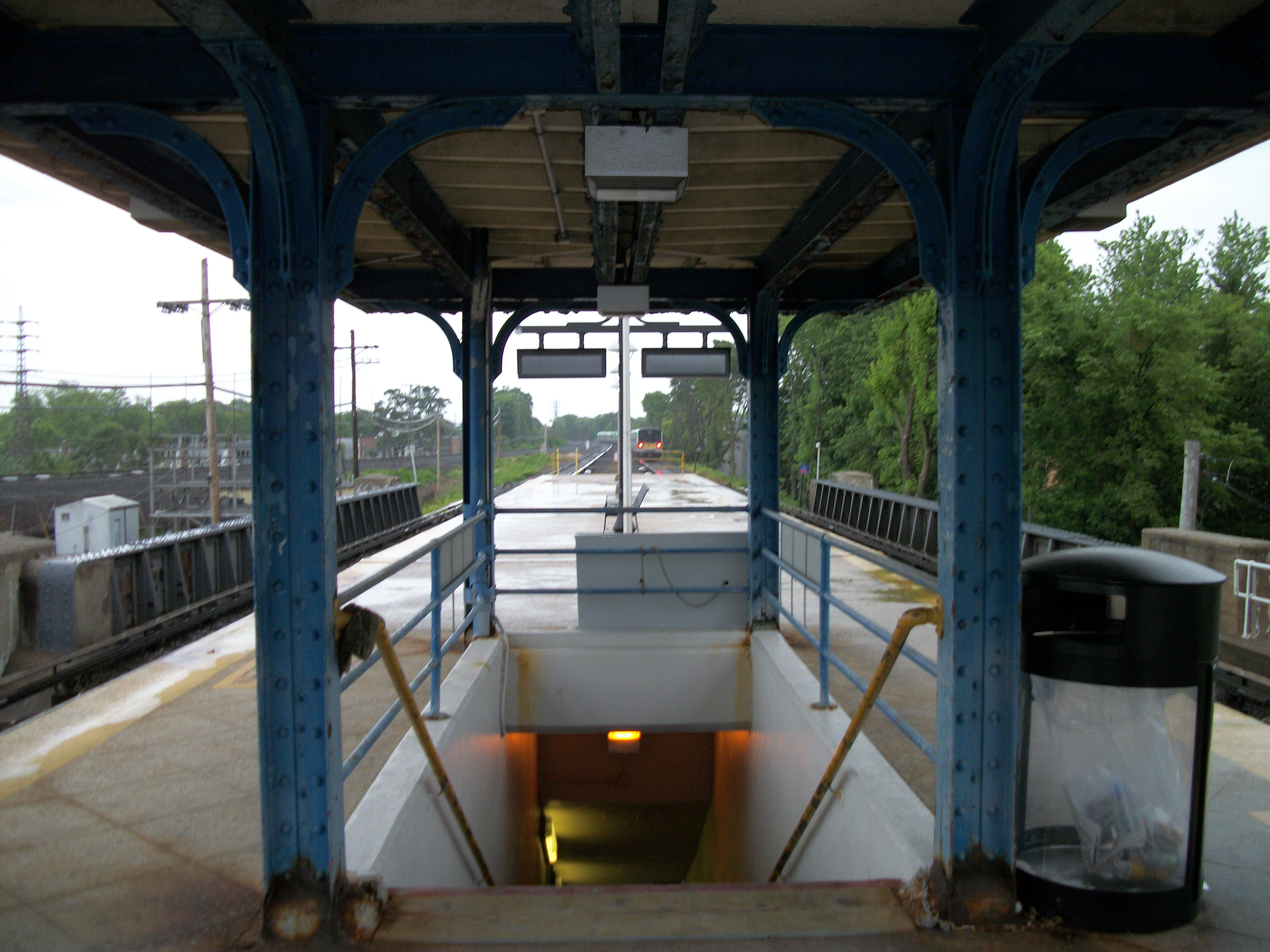 View of Springfield Junction from underneath the canopy of Laurelton (LIRR station) on a rainy afternoon. A train bound for Long Beach, New York can be seen in the background. This really wasn't what I was hoping the shot would look like(and I'm not blaming it on the weather), but I still feel it had to be shown and done.